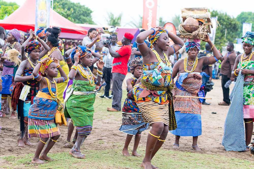 DEPICTING THE MOOD AND THE STRUGGLES OF THE PEOPLE OF ANLO DURING MIGRATION This is an image of Cultural Fashion or Adornment from Ghana